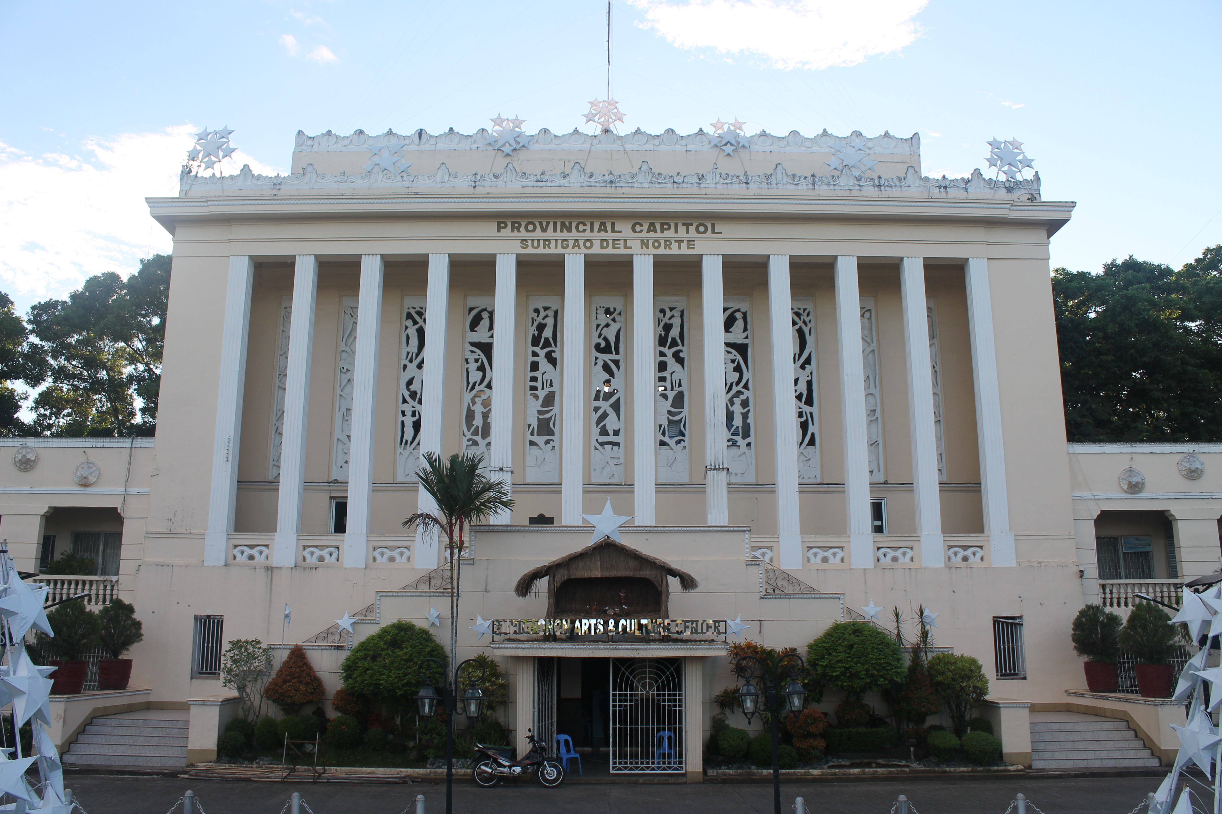 Provincial capitol of Surigao del Norte, Philippines Tagalog: Kapitolyo ng Lalawigan ng Surigao del Norte, Pilipinas